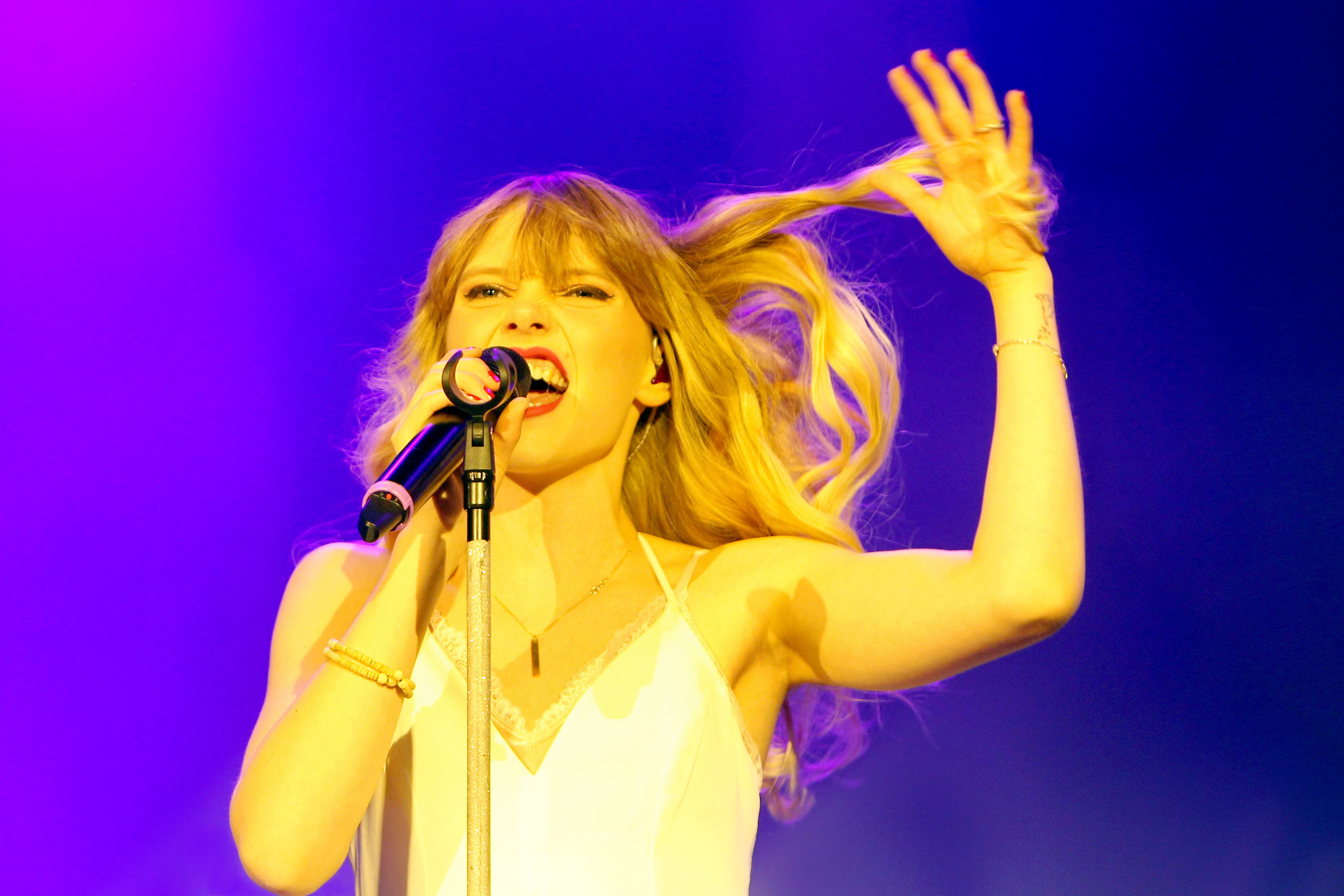 Lina Plays German Popmusic